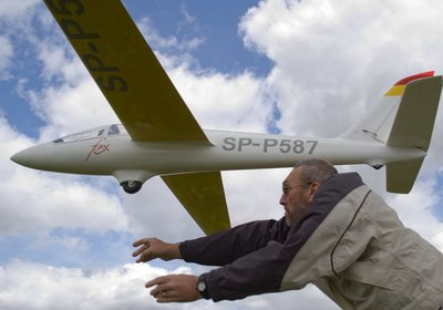 Dave Woods Airworld Fox is launched by Roger Robbins at Ivinghoe Beacon